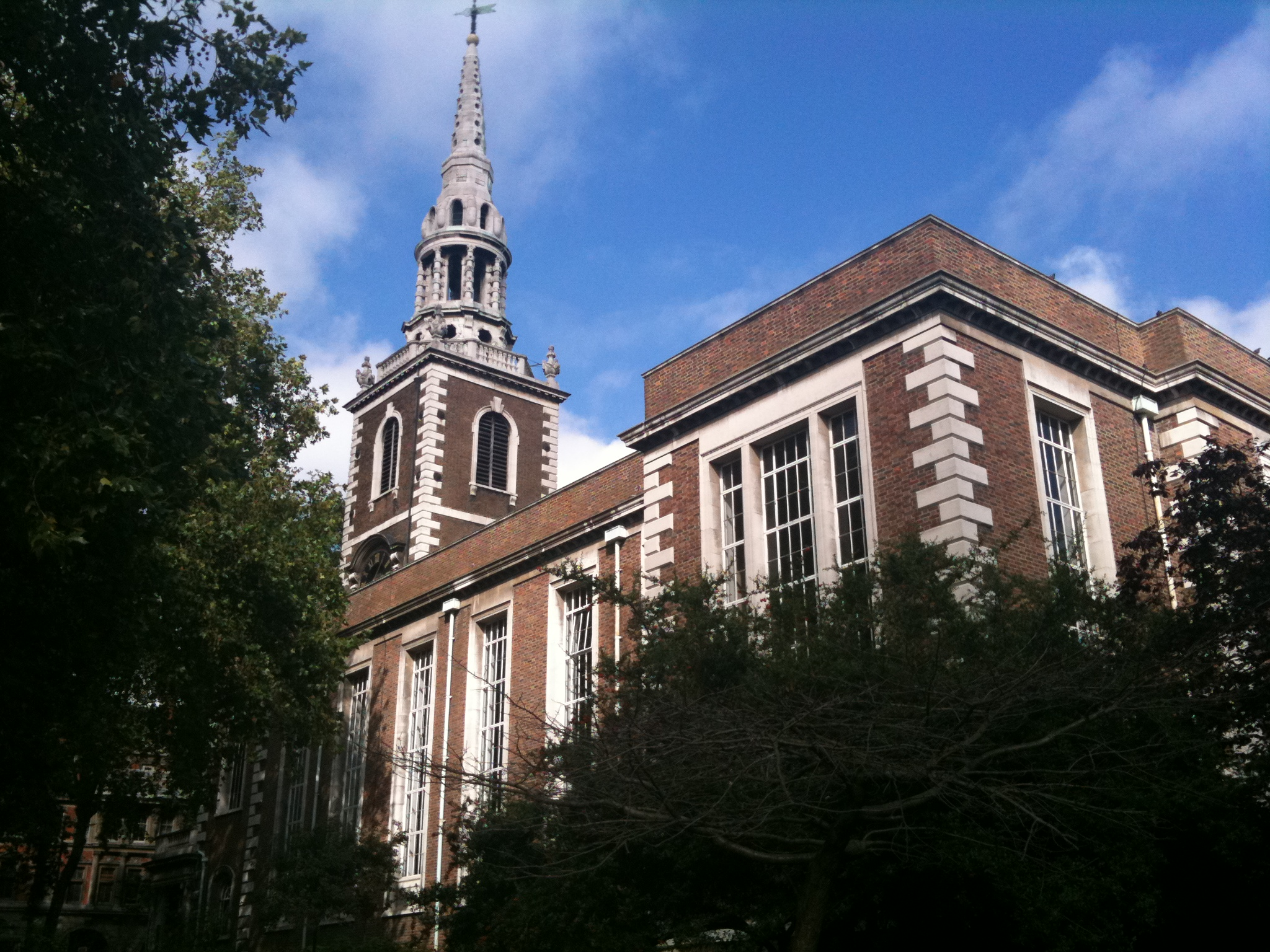 View of the tower and church of St Mary's Islington, taken from the south side of the building.